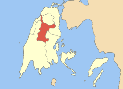 Locator map of Karya municipality (Δήμος Καρυάς) in Lefkada prefecture (Νομός Λευκάδας) in Greece.